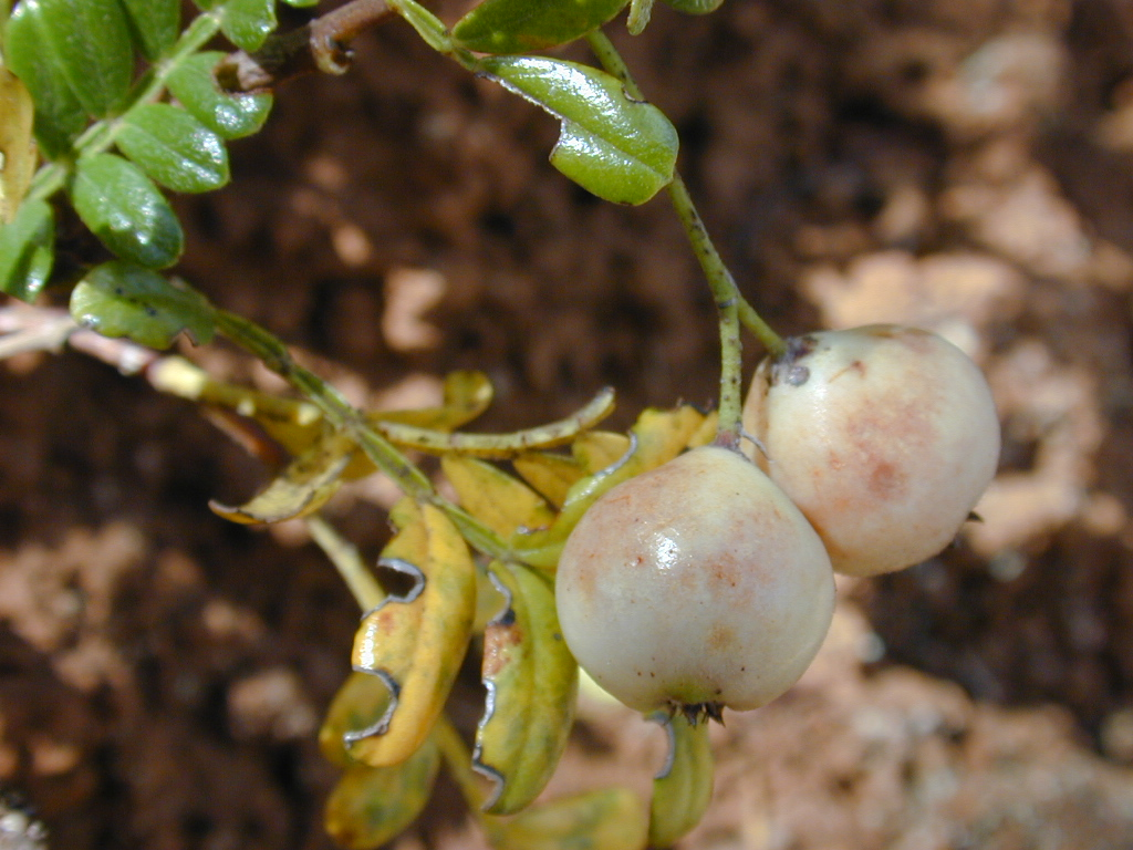 Osteomeles anthyllidifolia (fruits). Location: Maui, Makawao